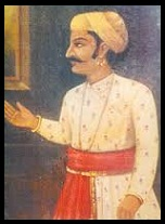 poet-rasik govind